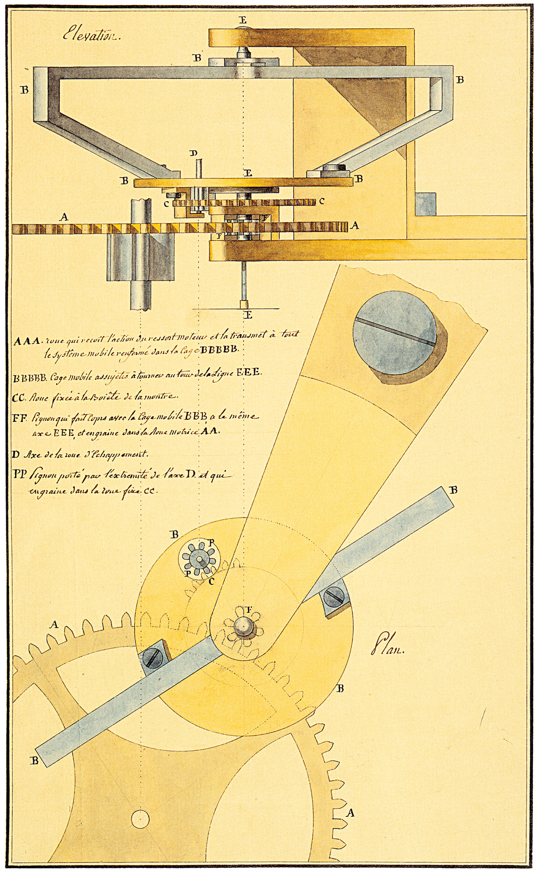 Original drawing by Abraham-Louis Breguet for patent request, 1801. Institut National de la Propriété Industrielle, Paris.